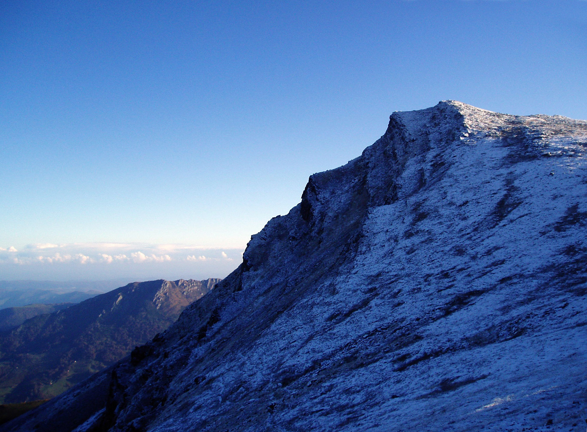 Alto Campoo: Near Tres Mares, where a drop of water can end up in one of three seas - The Atlantic, the Bay of Biscay or the Meditteranean. A clear day in October 2004